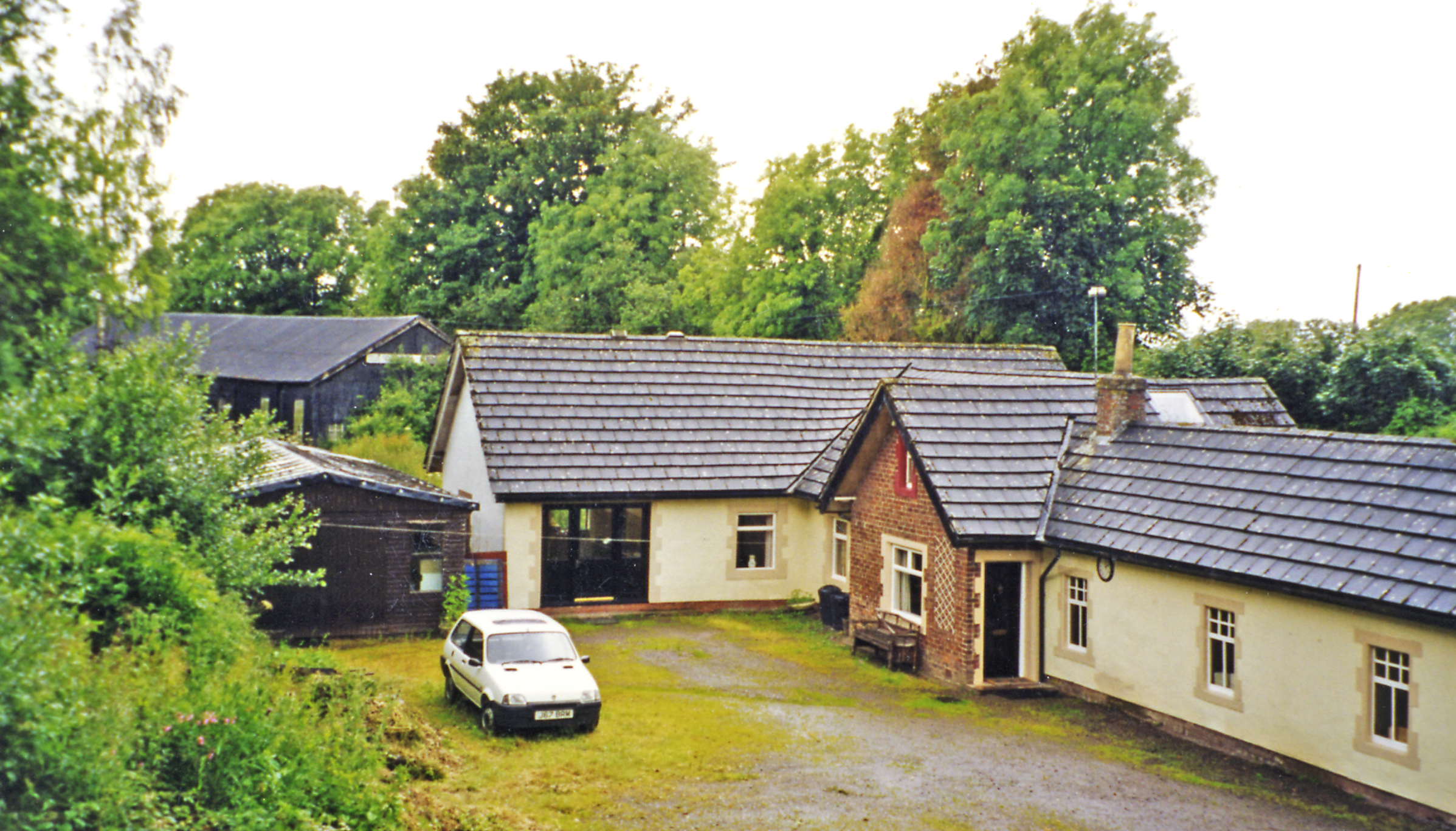 Former Kirkandrews station, 2002. View NW, towards Silloth: ex-NBR Carlisle - Silloth line, all closed from 7/9/64. The station has been well-converted and extended after private acquisition.